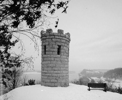 Julien Dubuque Monument (Grave) — Mississippi River vicinity on Julien Dubuque Drive, Dubuque vicinity (Dubuque County, Iowa) Image courtesy of federal HABS—Historic American Buildings Survey of Iowa project (cropped).